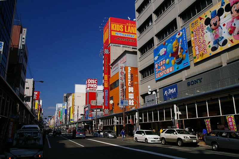 Electoric Market - Denden Town, Naniwaku, Osaka City, Japan.